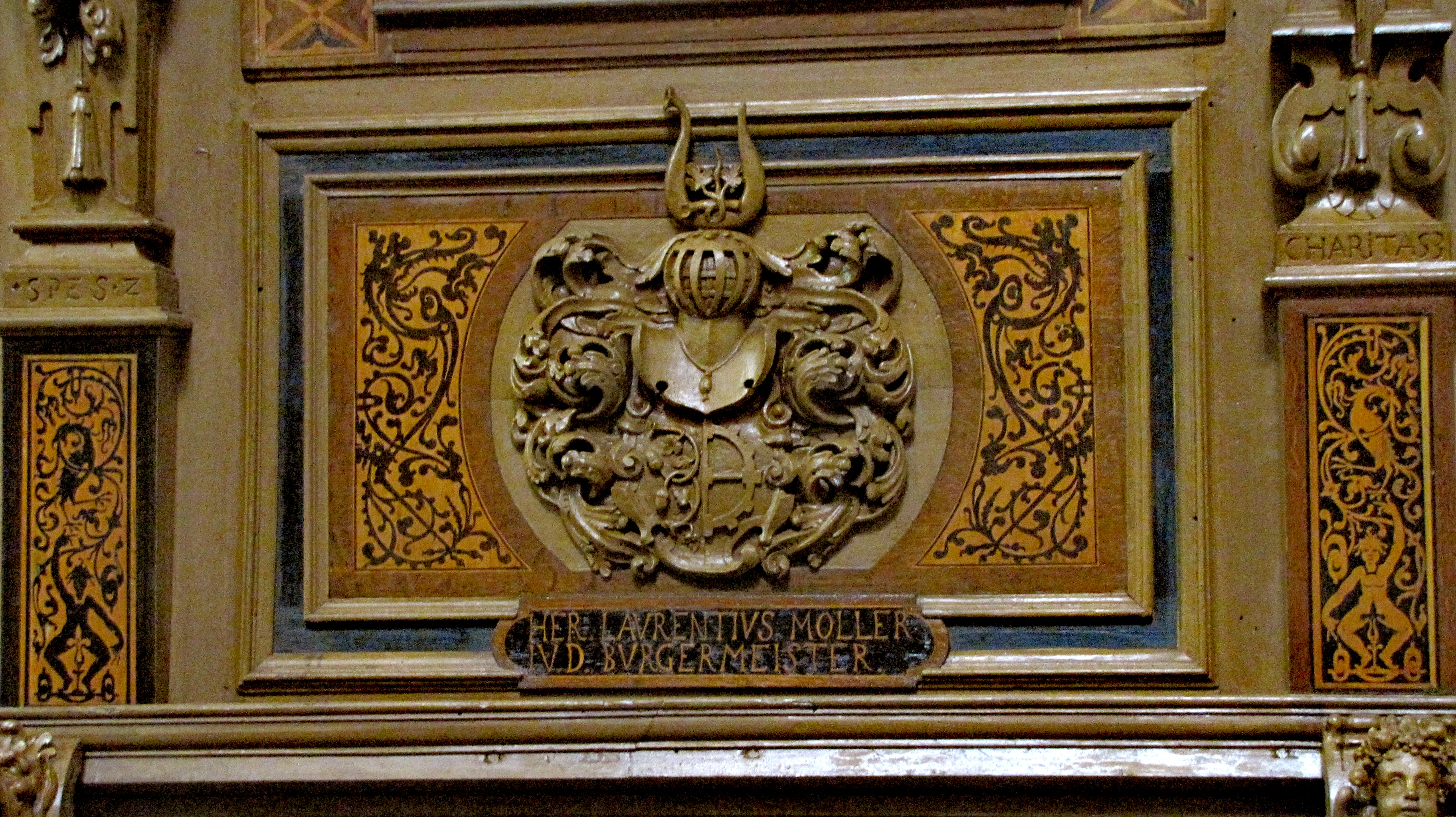 Coat of arms of mayor Lorenz Möller († 1634) on organ front, St. Aegidien, Lübeck